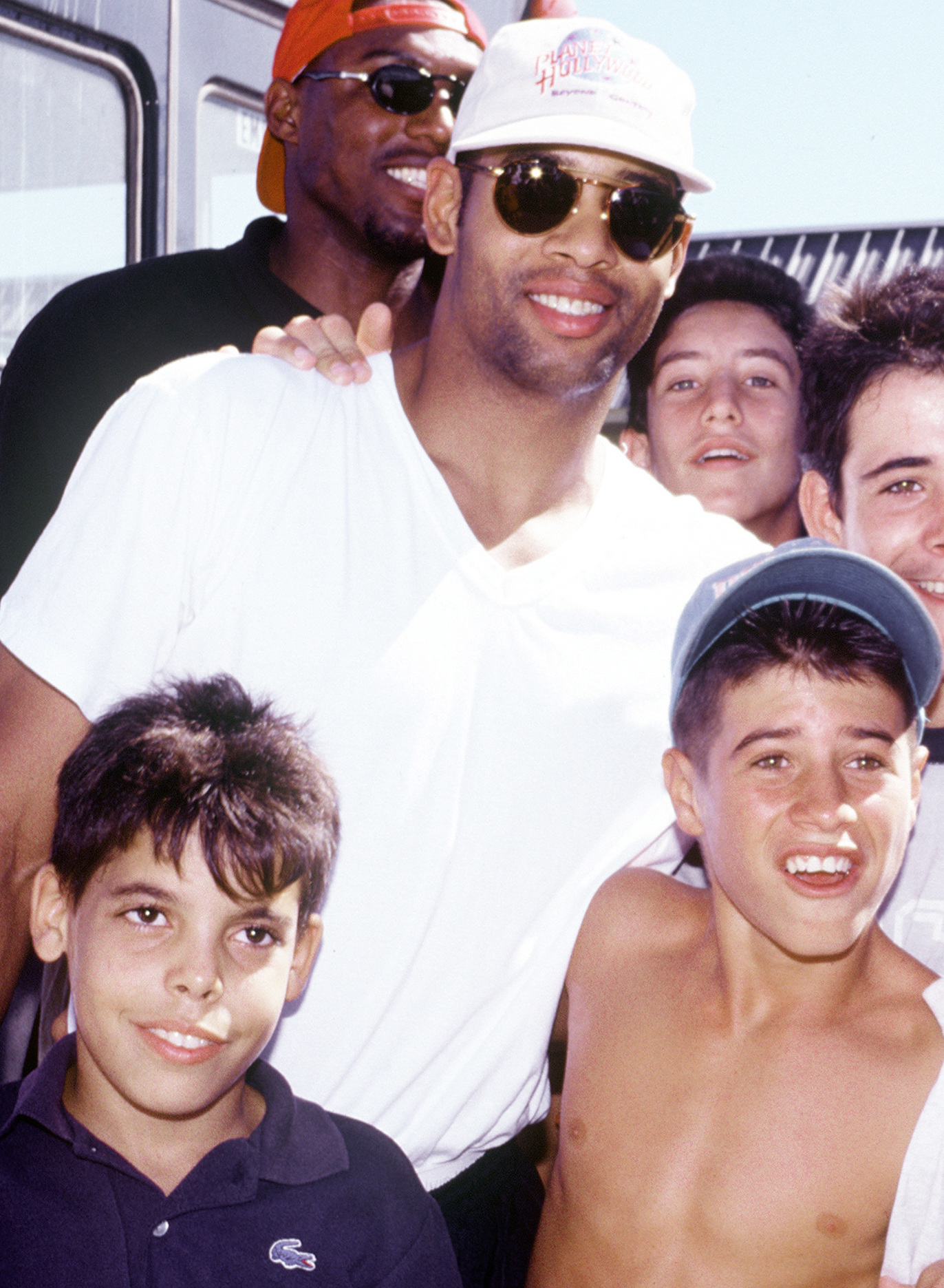 Members of the Miami Heat basketball team pose for pictures with Cuban and Haitian migrant children during a visit to Naval Station Guantanamo Bay. The team donated 1,000 toys to World Relief for the Children.